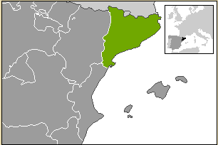 Map extent is fit to NUTS ES5 area (Eastern Spain).